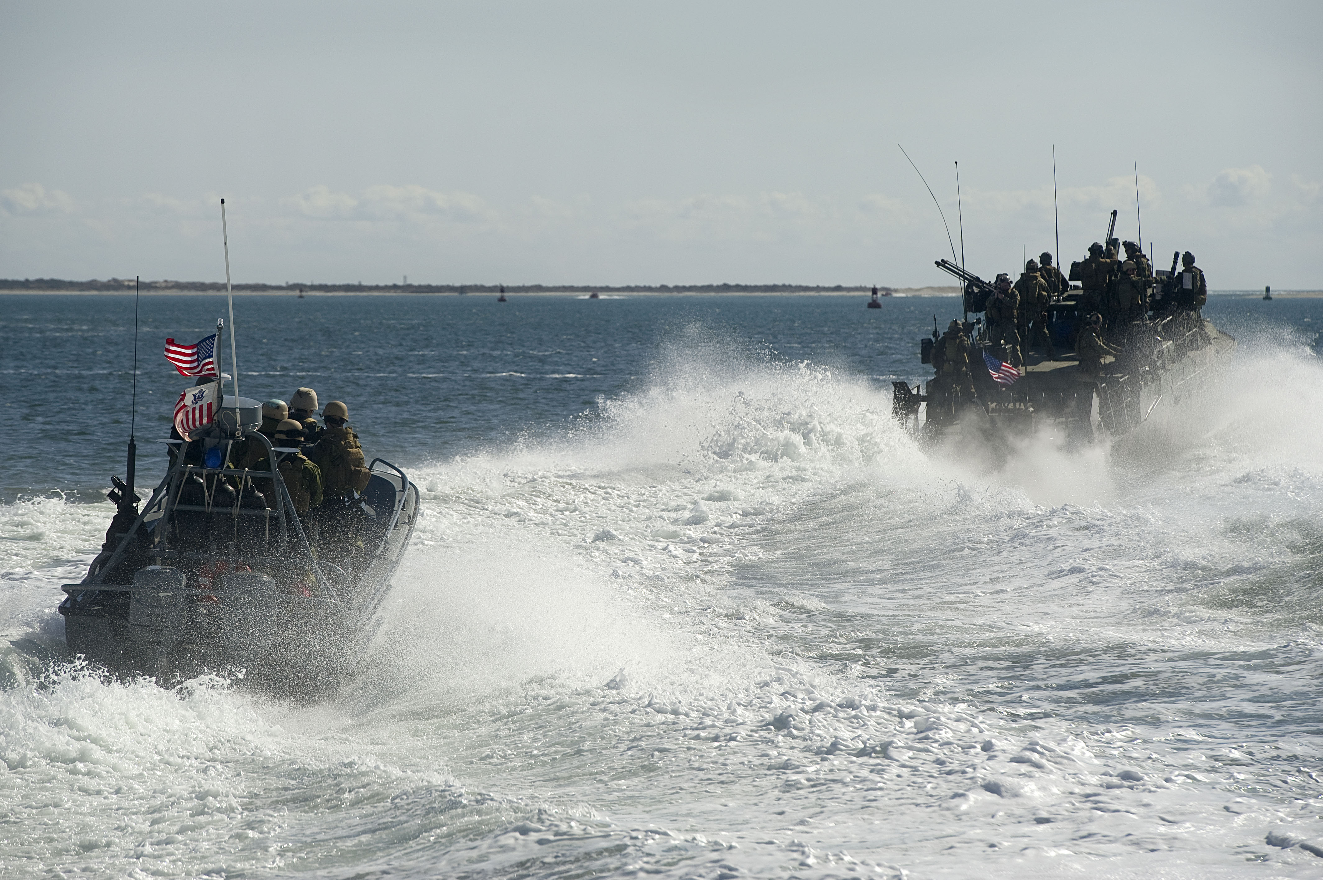 CAMP LEJEUNE, N.C. (Feb. 1, 2012) Coast Guard transportable port security boats attached to Port Security Unit 308 and riverine command boats from Riverine Squadron (RIVRON) 2 practice maneuvers together in the Intracoastal Waterway in North Carolina, during Exercise Bold Alligator 2012. Bold Alligator is the largest naval amphibious exercise in the past 10 years and represents the Navy and Marine Corps' revitalization of the full range of amphibious operations. The exercise focuses on today's fight with today's forces, while showcasing the advantages of seabasing. The exercise will take place Jan. 30 through Feb. 12, 2012, afloat and ashore in and around Virginia and North Carolina. (U.S. Navy photo by Mass Communication Specialist 1st Class Richard Brunson/Released)